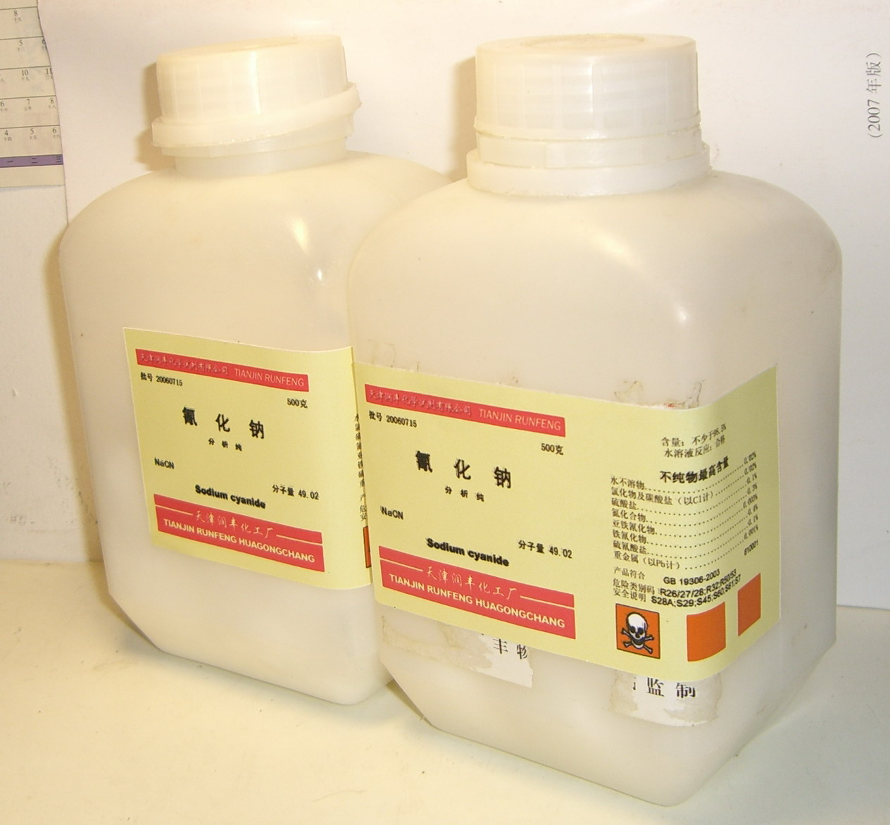 2 * 500g Sodium cyanide with labels